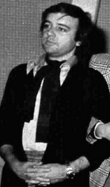 Italian comedy duo Cochi & Renato and in the middle singer Enzo Jannacci